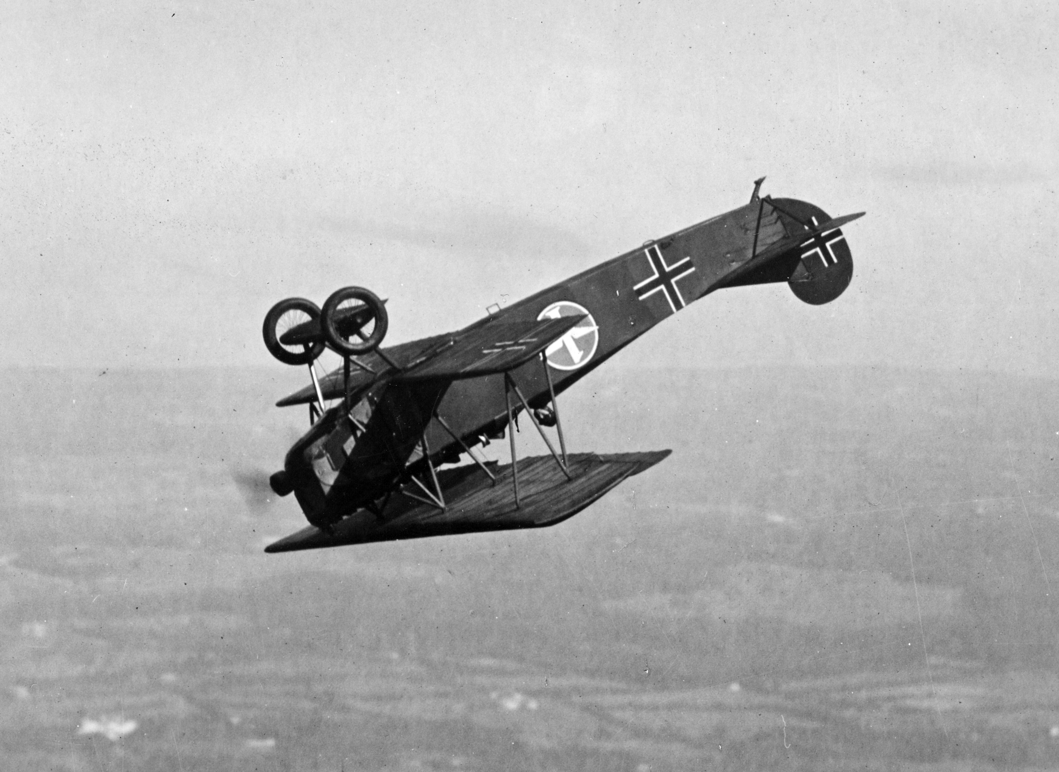 A Fokker D.VII flying a looping. This is probably an aircraft brought to the U.S. after the war.